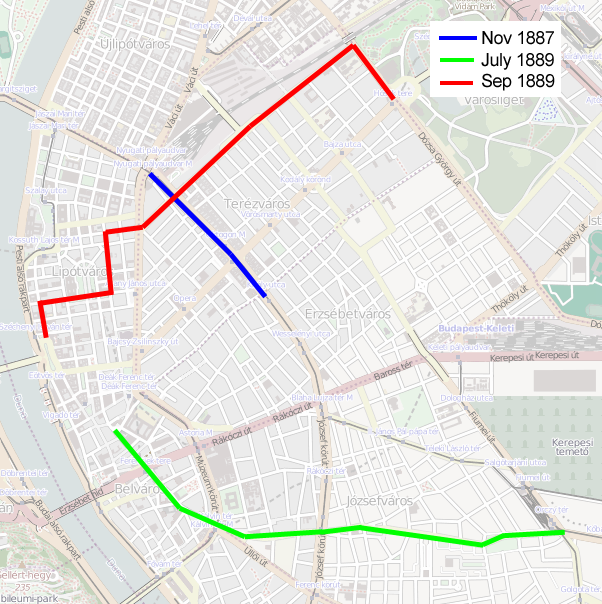 The first three tram lines in Budapest: one on the Grand Boulevard, one on Baross (Stáció) utca and one on Podmaniczky utca